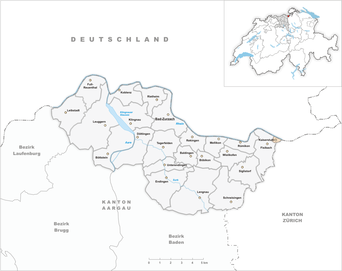 Municipality Kaiserstuhl